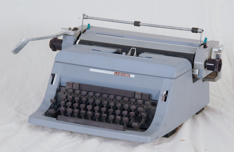 Olivetti LINEA 88 typewriter, Made in Italy in 1965